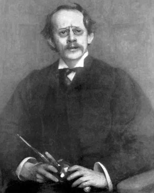 Source: Photo from original Rationale: The artist Arthur Hacker died in 1919, therefore PD.